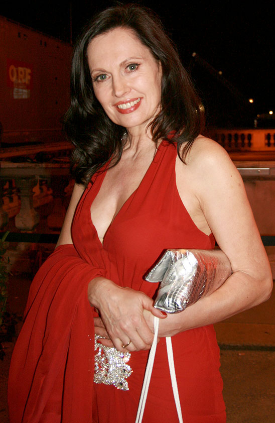 Evelyn Engleder at the Romy TV awards (Hofburg Imperial Palace in Vienna)